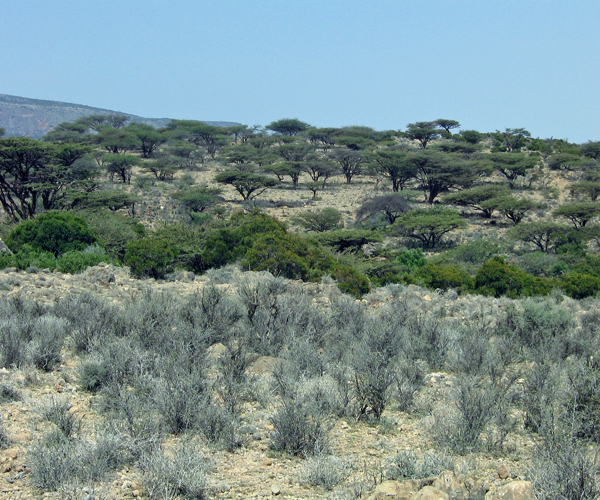 Almadow forest, Maakhir, Somalia